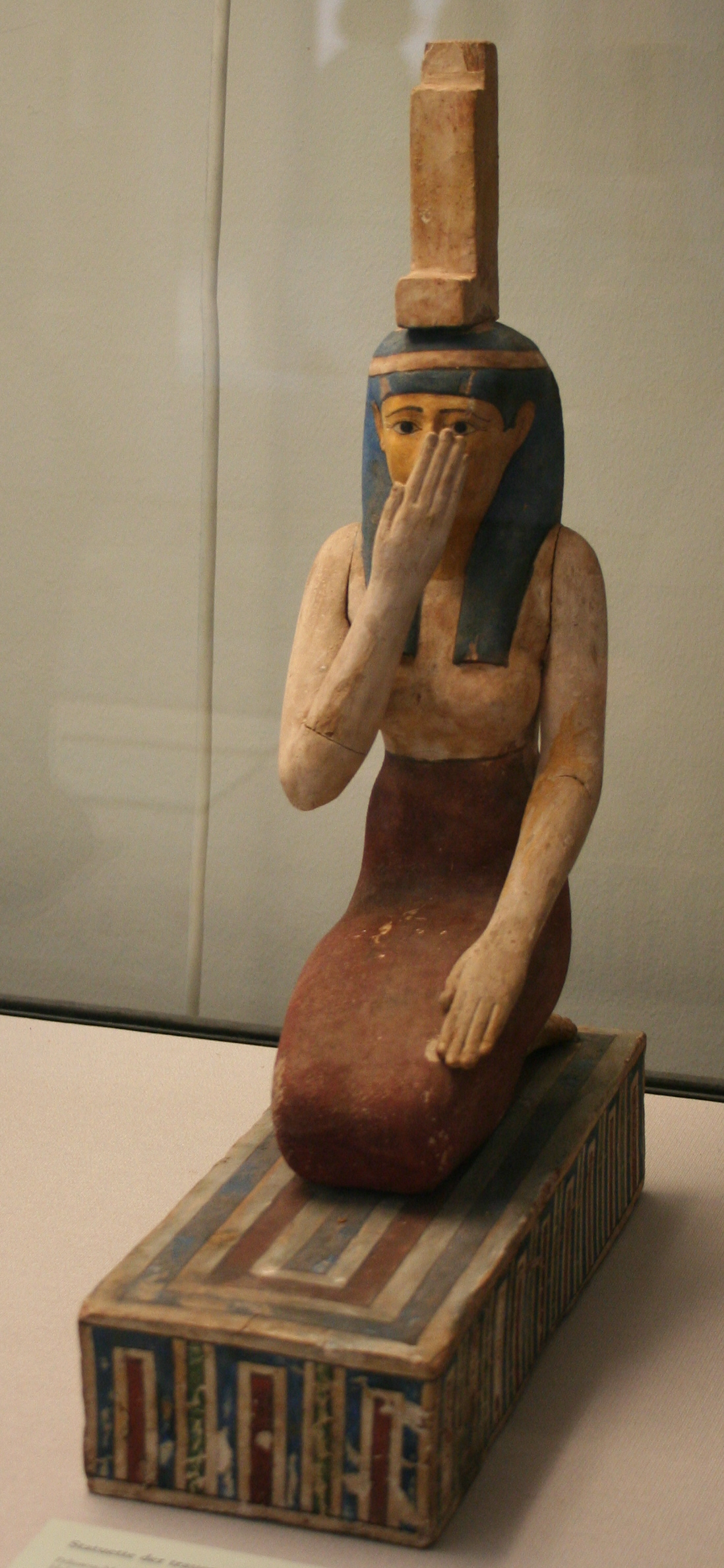 Mourning Isis. Ptolemaic dynasty. Wood. Stucco painted. H 40.5 cm (IN 1584) Roemer- und Pelizaeus-Museum, Hildesheim